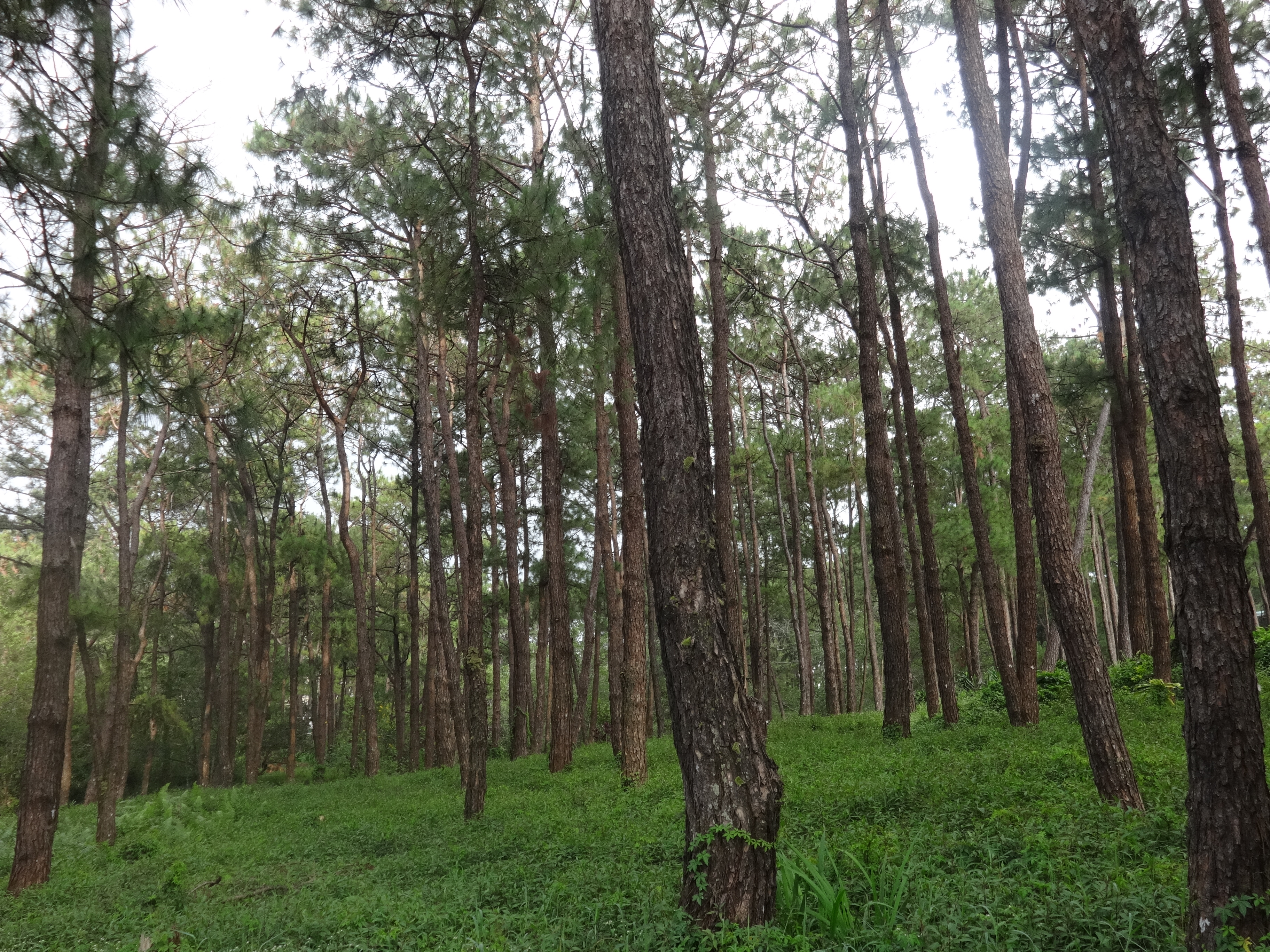 Trees in a forest park near UP Baguio campus in Baguio City